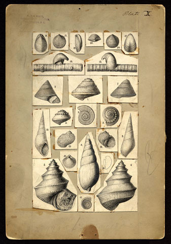 Drawings of shells of gastropods.